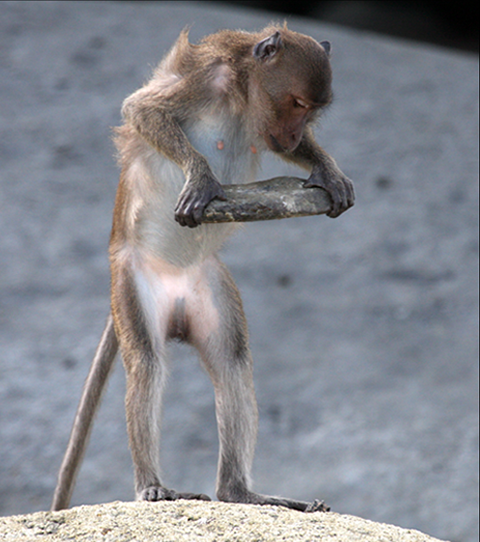 Macaca fascicularis aurea using a stone tool. Photo by Michael D. Gumert. Cropped from which is also available at File:Macaca fascicularis aurea stone tools - journal.pone.0072872.g002.png.